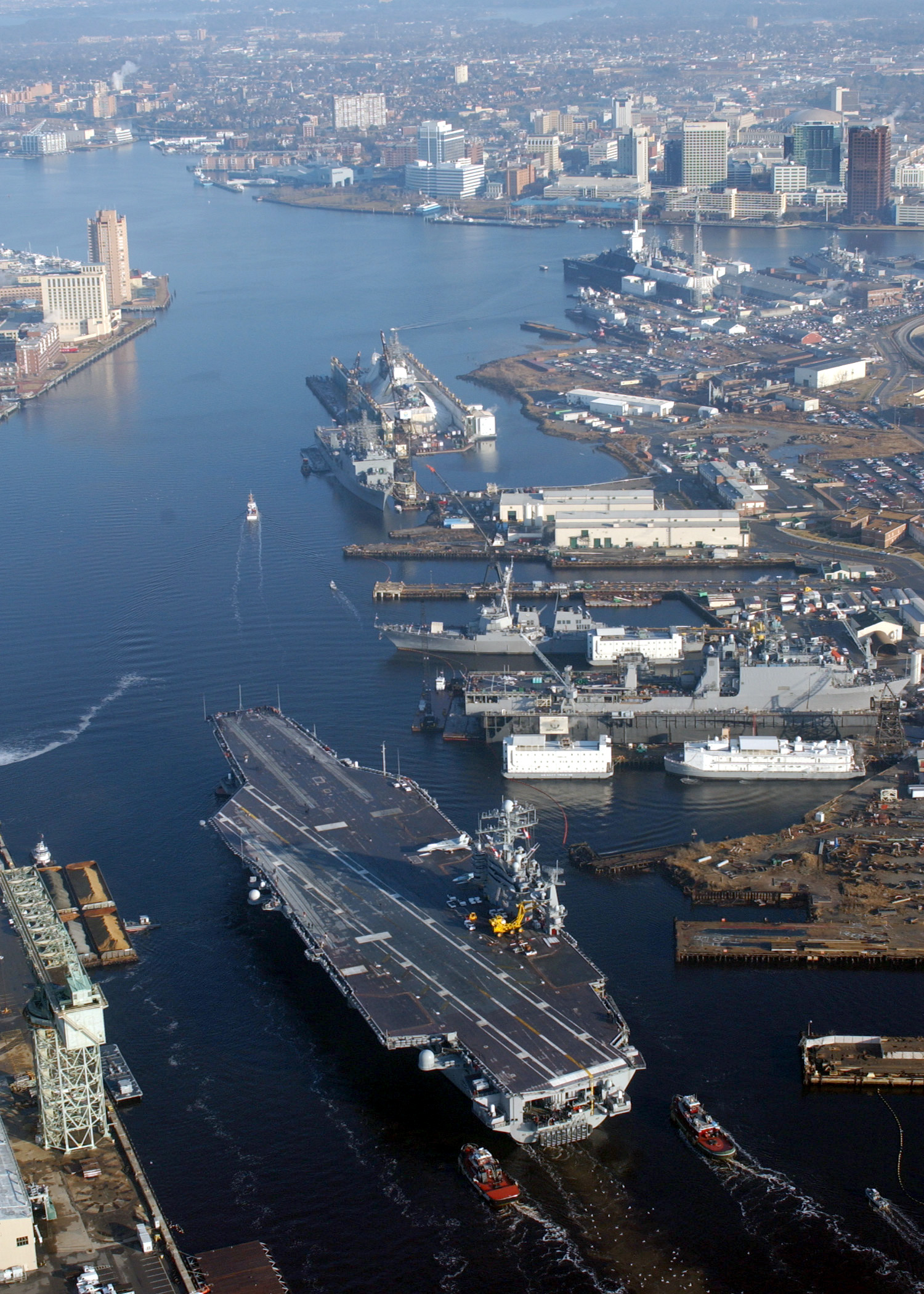 Portsmouth, Va. (Feb. 13, 2004) – The nuclear powered aircraft carrier USS Harry S. Truman (CVN-75) transits the Elizabeth River following completion of a six-month Planned Incremental Availability (PIA) at Norfolk Naval Shipyard. Truman completed her yard period a week ahead of schedule and 4 million dollars under budget.